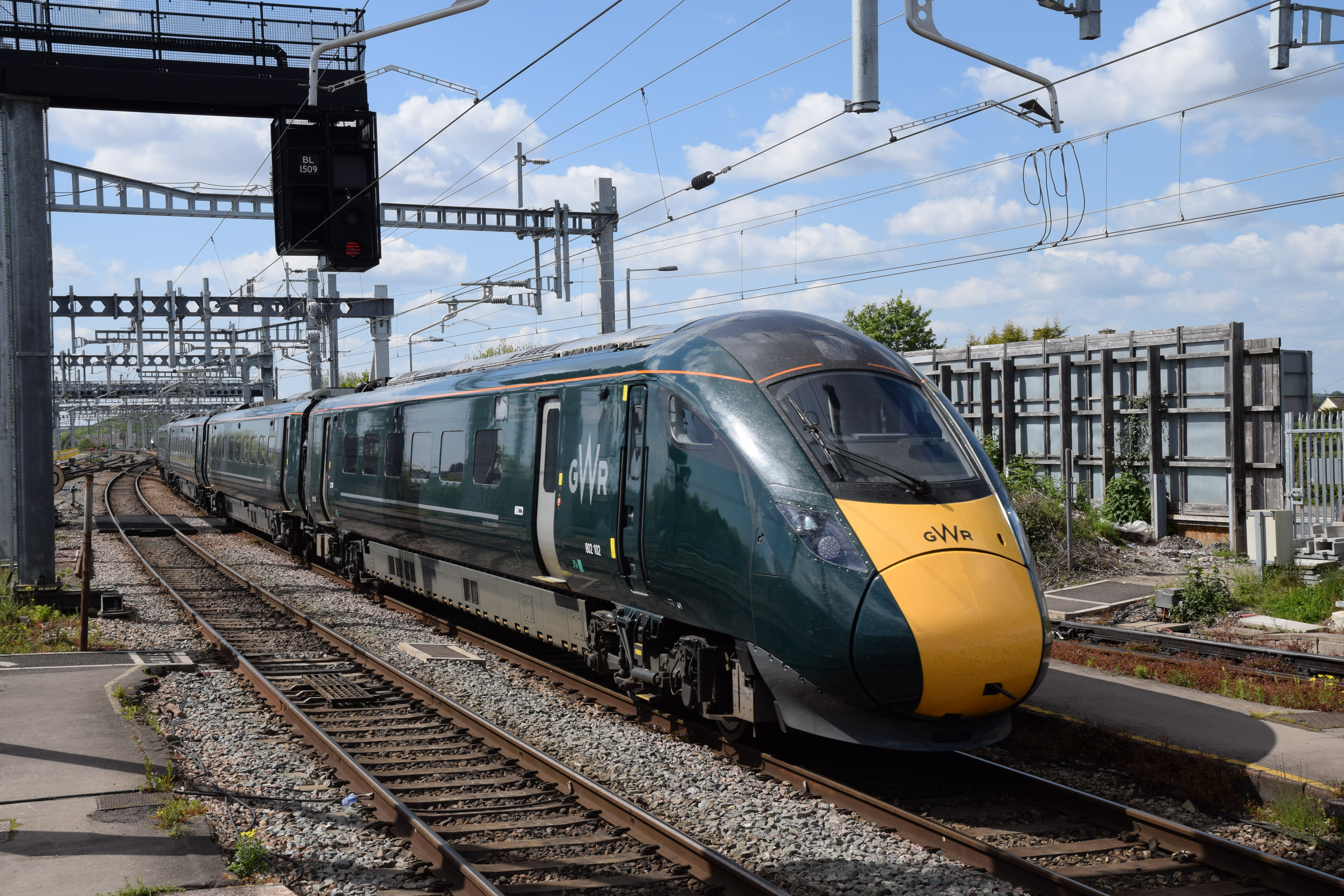 Hitachi (Kasado & Newton Aycliffe) Class 802/1 25 k v ac overhead/diesel electric bi-mode 9-car mu No.802 102 of GWR in Brunswick Green livery on the 13.29 Swansea - Paddington service approaching Bristol Parkway, 4 May 2019.